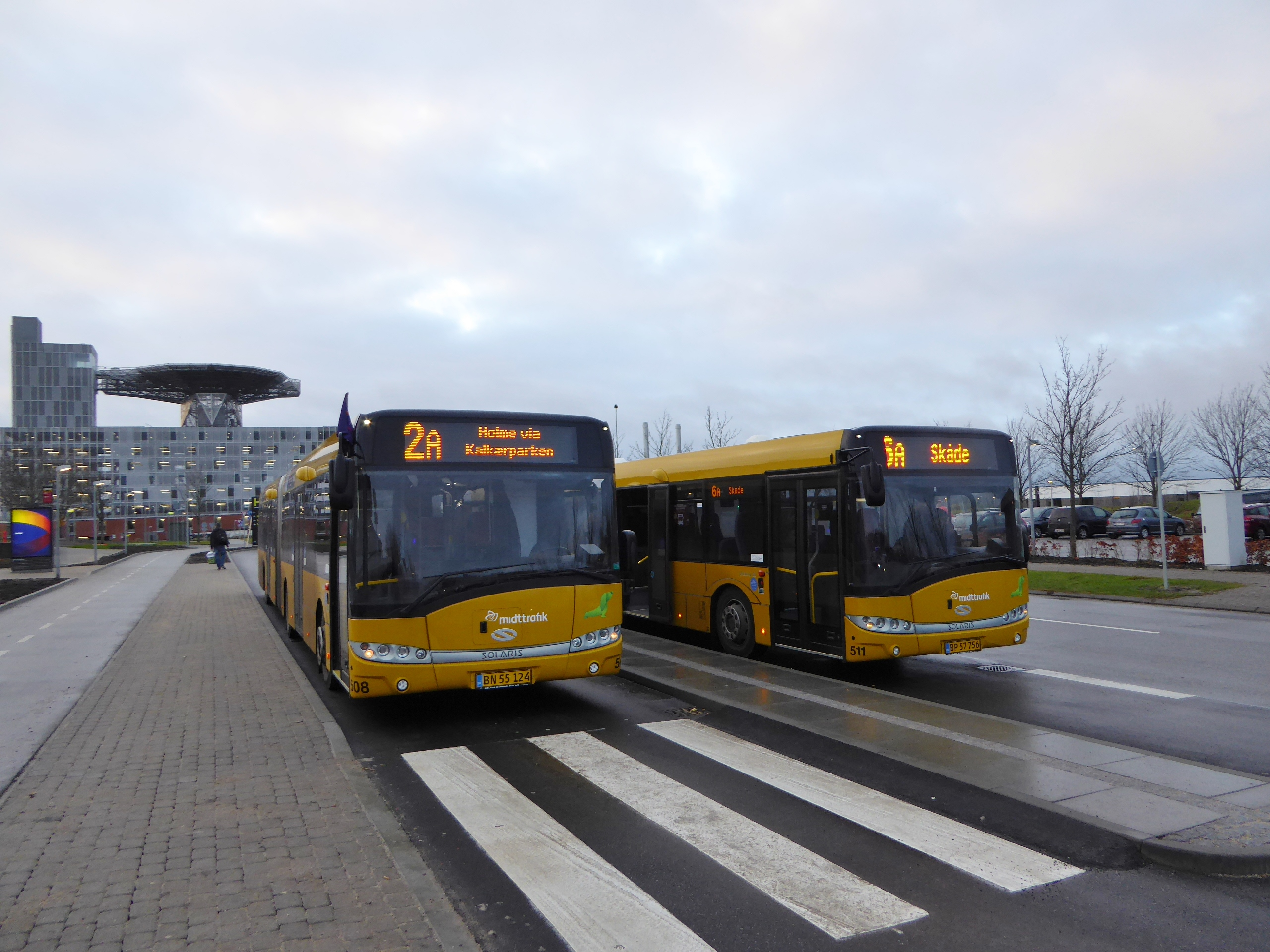 Midttrafik bus line 2A and 6A at the endpoint at Aarhus Universitetshospital in Aarhus in Denmark.